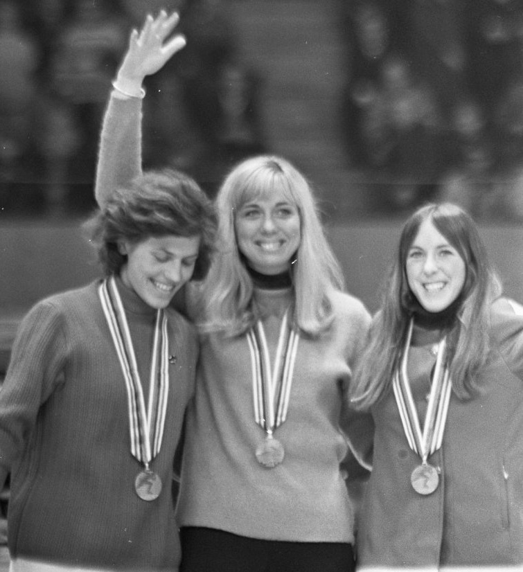 Left-right: Lyudmila Titova, Carry Geijssen, Dianne Holum, Olympic Games